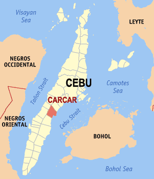 Map of Cebu showing the location of Carcar